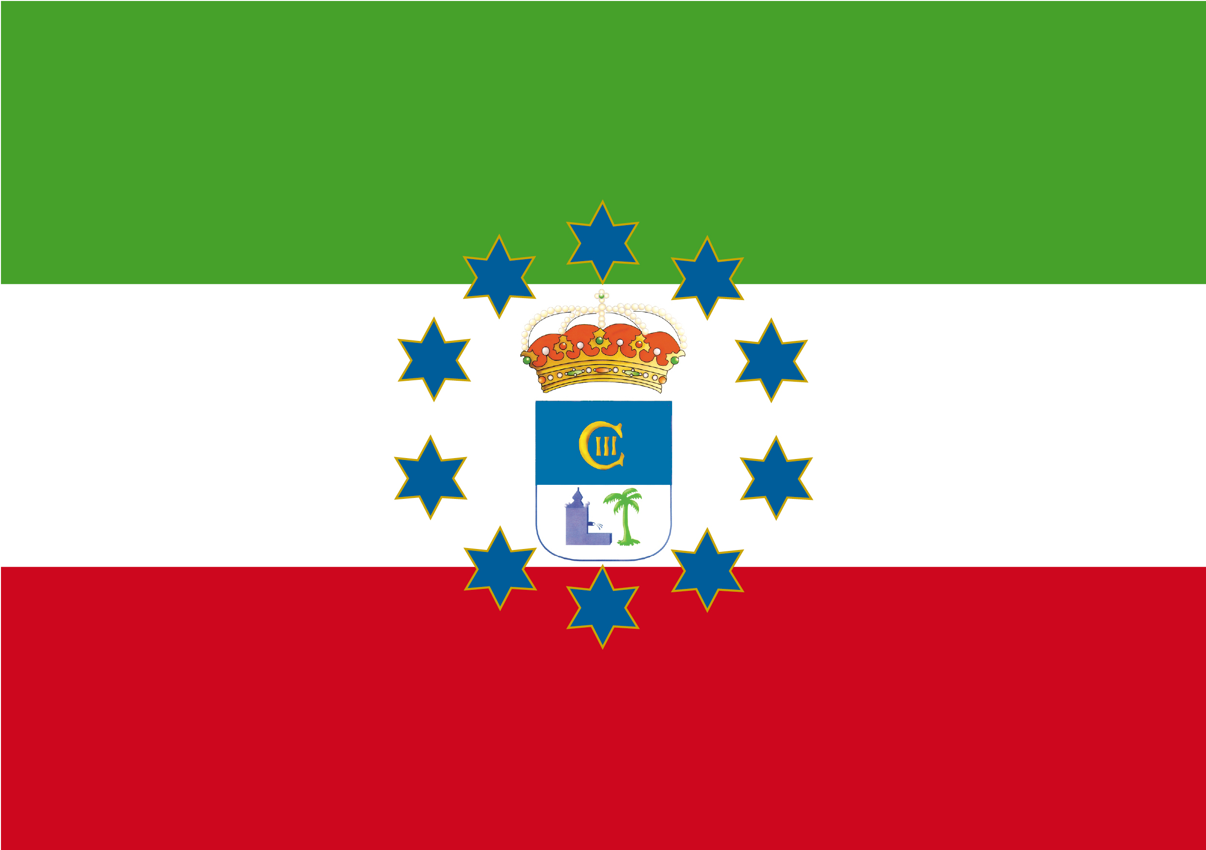 Flag of Fuente Palmera, Spain